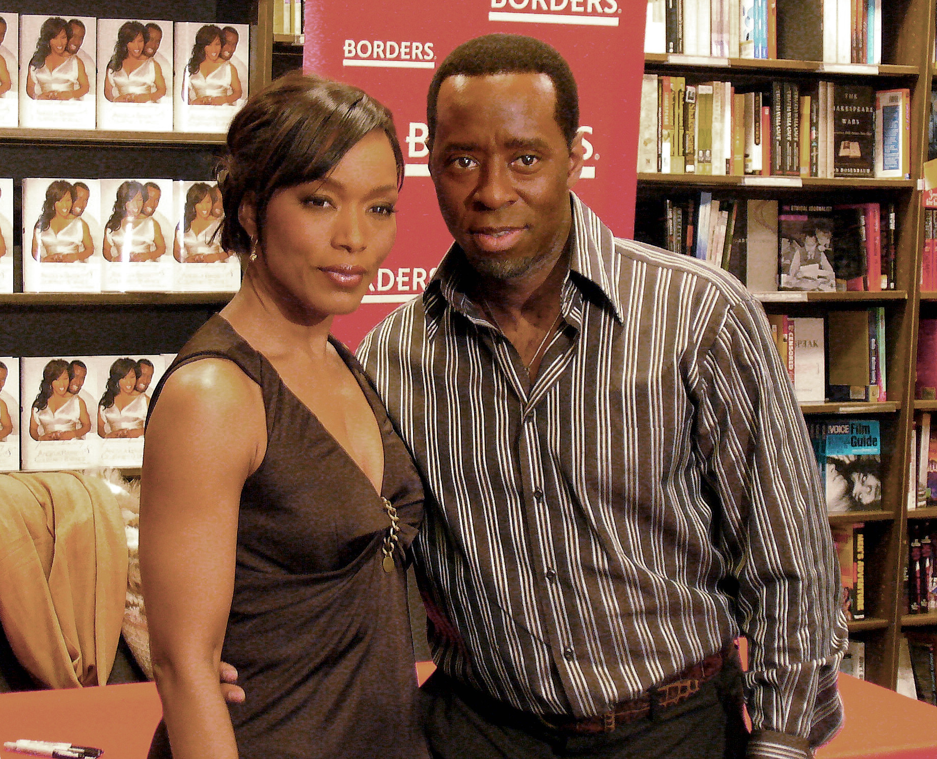 Angela Bassett and Courtney Vance by David Shankbone